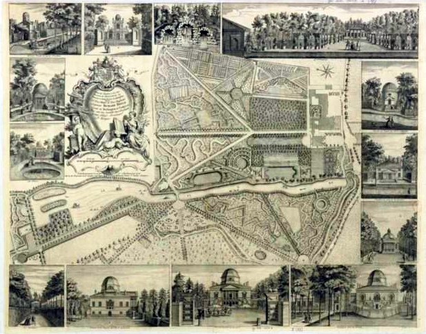 Engraving in 1736 by John Rocque of house and garden at Chiswick House Jean Rocque has combined a map of the gardens of Chiswick House at the centre of this print, with a series of views of the house and garden around the margins. The house is just to the left of the middle of the three views running down the right-hand edge. It is also depicted in three of the four scenes along the bottom edge. In the bottom right-hand corner is a view of the side of the house that faces the garden. Next to this is a view of the front of the building, and then a view of the side.